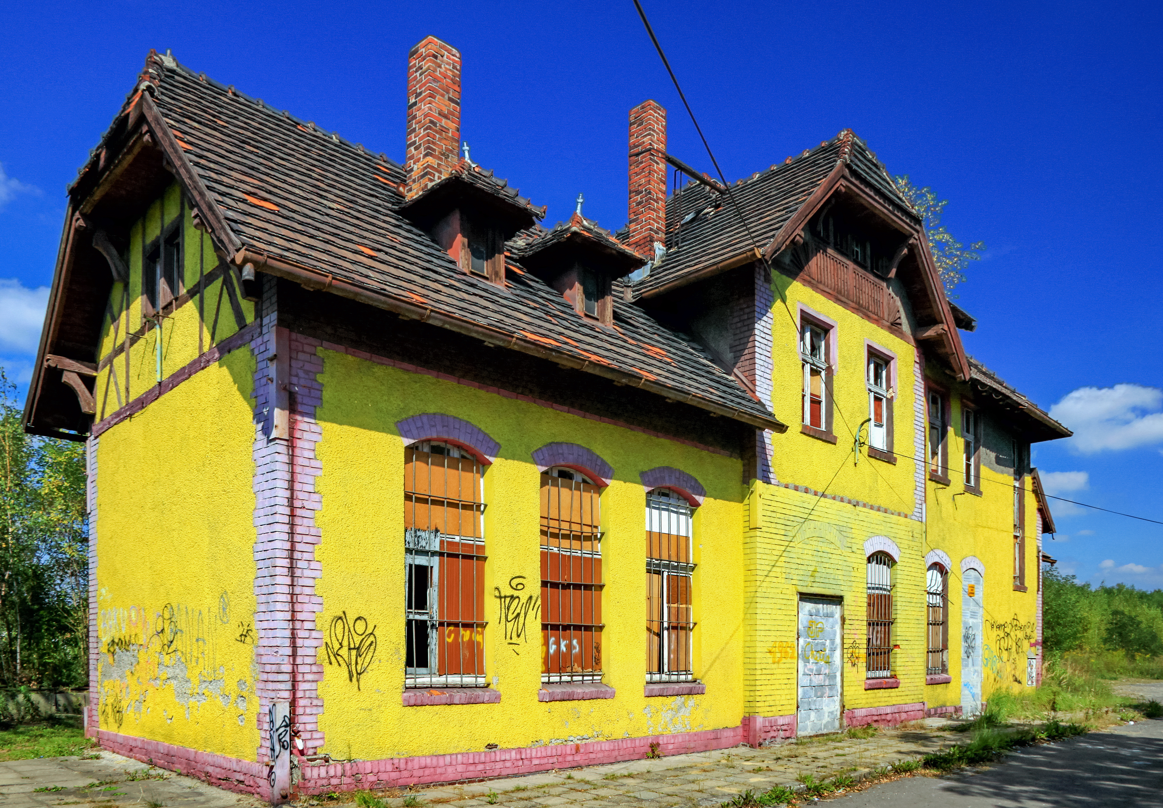 Former train station. Jastrzębie-Zdrój, Silesian Voivodeship, Poland.